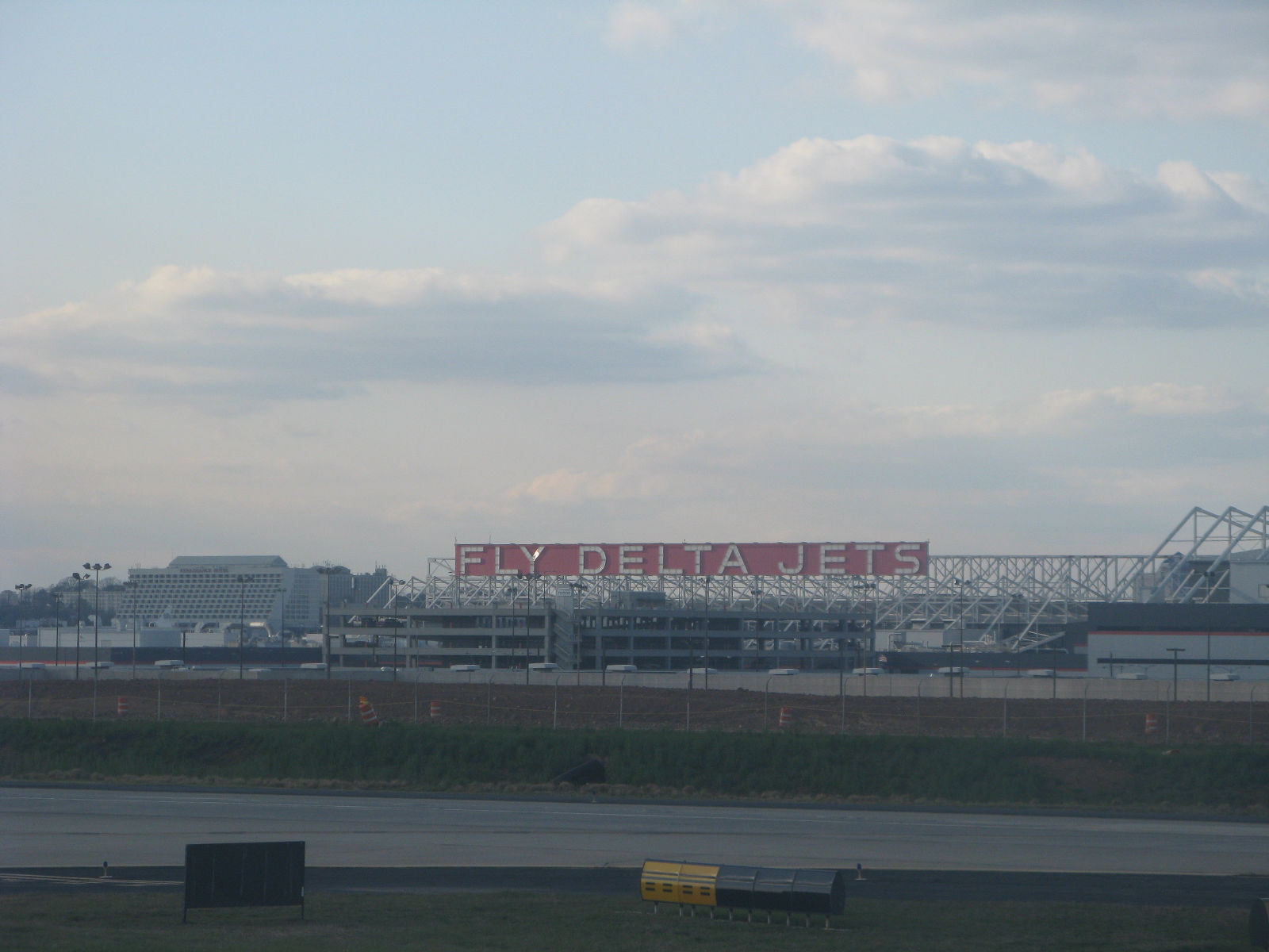 "Fly Delta Jets" sign at Hartsfield-Jackson Atlanta International Airport